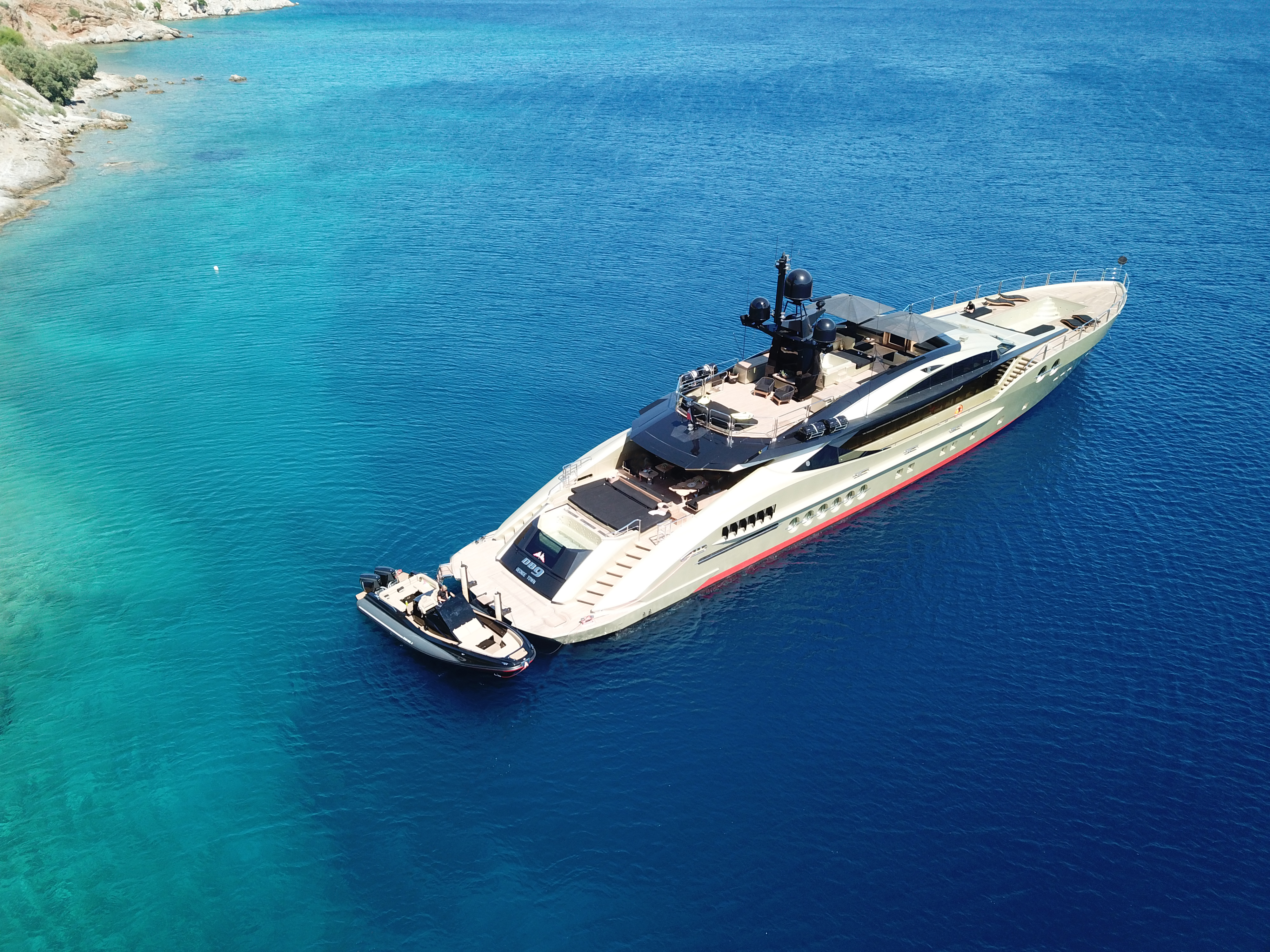 DB9 2019